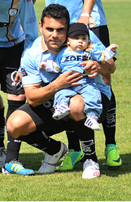 Cristián Bogado in a match of Deportes Iquique